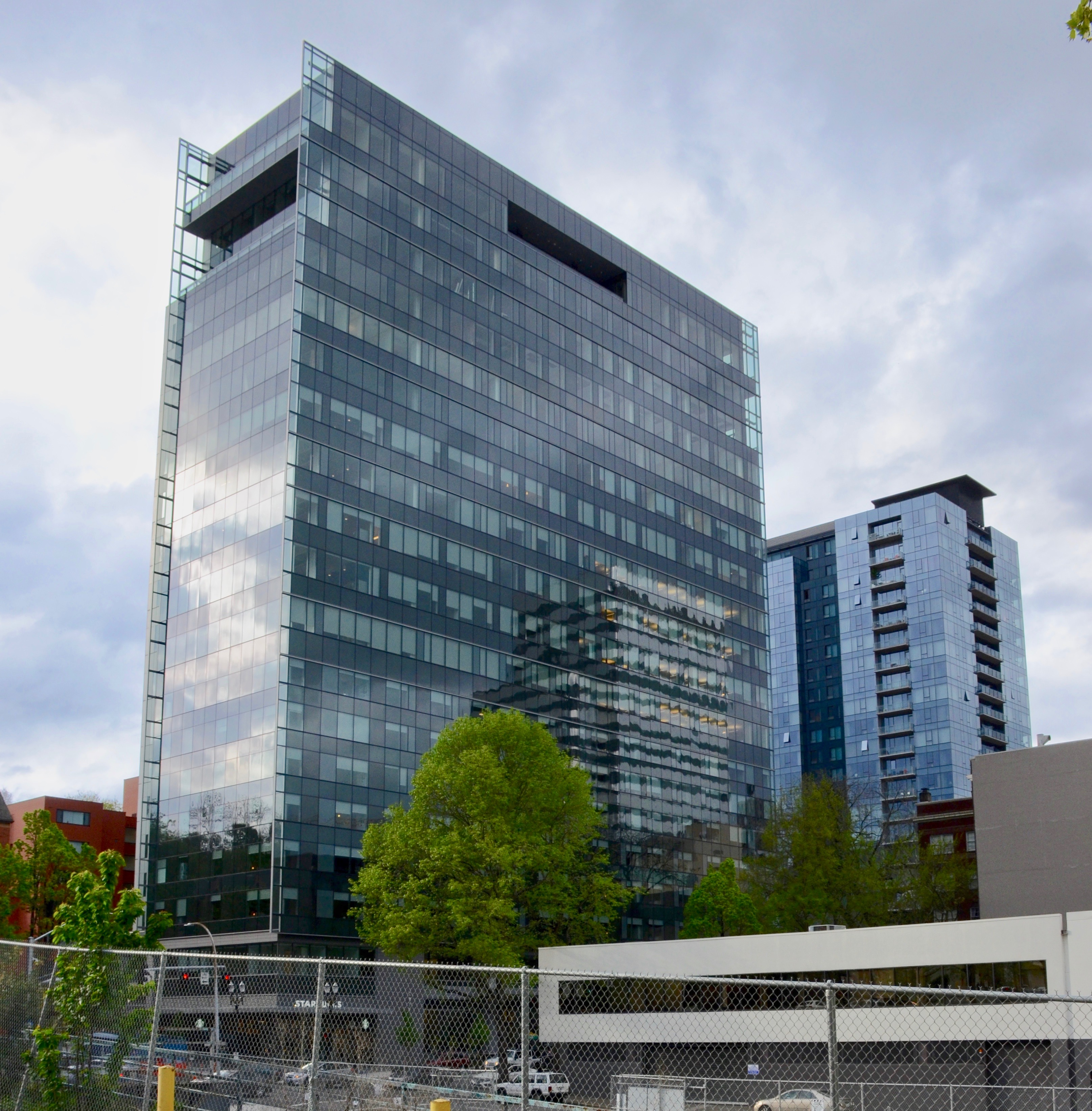 The Broadway Tower and the almost-adjacent Ladd Tower, in downtown Portland, Oregon, from the southeast. The reflection of the nearby PacWest Center is visible on the side of the Broadway Tower.